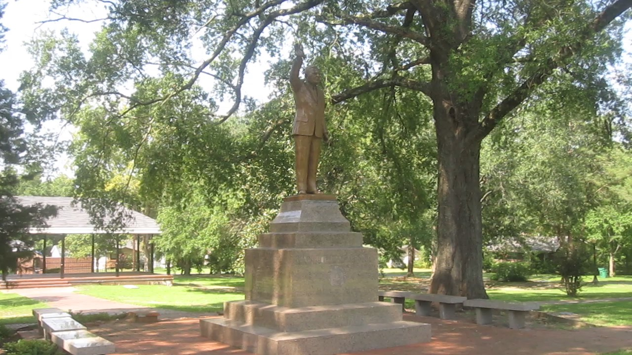 Earl K. Long grave and statue, Winnfield, LA